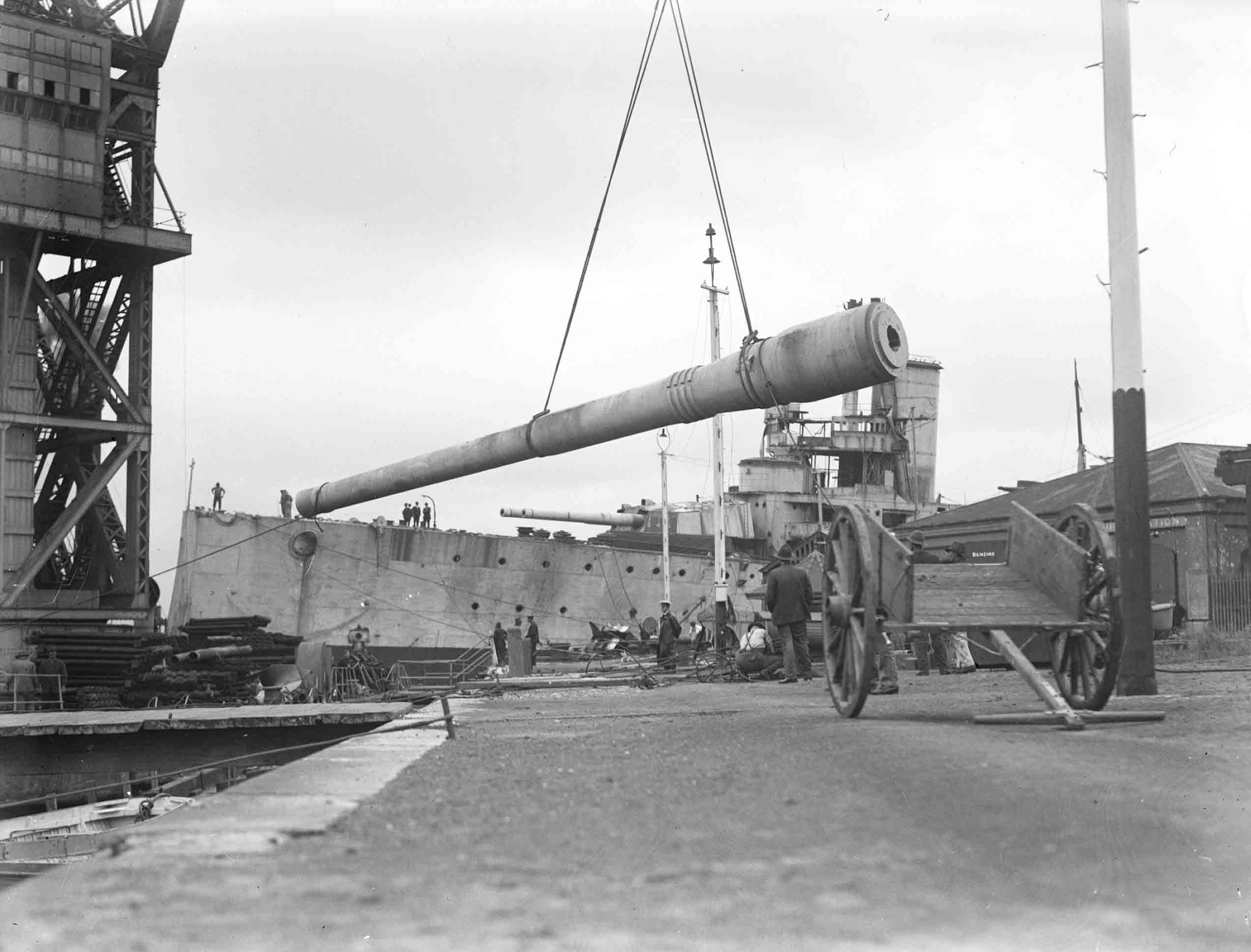 This image depicts the removal of the 12-inch guns from HMAS AUSTRALIA I at Garden Island, Sydney in preparation for the ship's scuttling on 12 April 1924. An article in 'The Sydney Morning Herald' describes the scene of dismantling: 'A glance from her decks down ... afforded a small glimpse of what had been taken from her. There was an array of boilers, pumps, winches, portion of her steel topmast, hawsers, ventilators, solid shells, dynamos, boiler drums and tubes, a propeller with only three blades, great lengths of piping, and a host of fittings that go to make up a fighting ship. On her main and quarter decks there was a scene of devastation. Her eight 12-inch guns still point fore and aft, but they are no longer guns. The oxy-acetylene flame has cut the barrels half through in the middle, and just enough remains to keep the barrel rigid.' ['Desolate Scene’, The Sydney Morning Herald, Saturday 12 April 1924, p 17] This photo is part of the Australian National Maritime Museum’s Samuel J. Hood Studio collection. Sam Hood (1872-1953) was a Sydney photographer with a passion for ships. His 60-year career spanned the romantic age of sail and two world wars. The photos in the collection were taken mainly in Sydney and Newcastle during the first half of the 20th century. The ANMM undertakes research and accepts public comments that enhance the information we hold about images in our collection. This record has been updated accordingly. Photographer: Samuel J. Hood Studio Collection Object no. 00034977